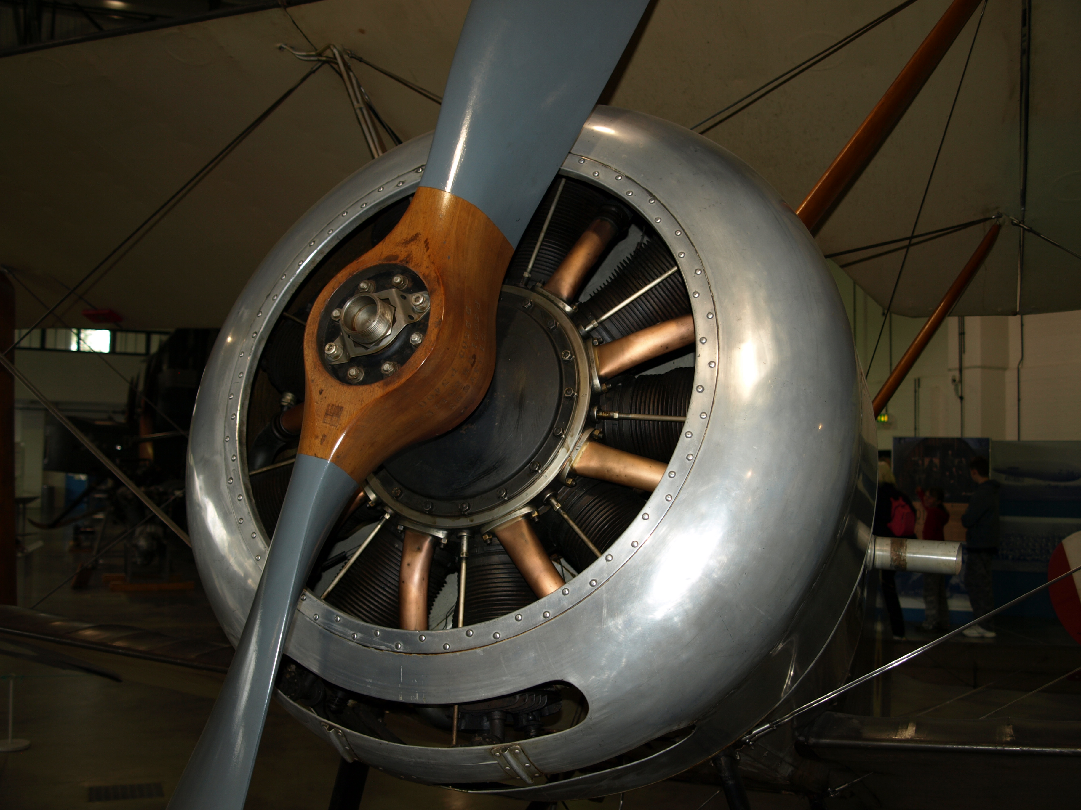 Le Rhône 9C rotary engine installed in a Sopwith Pup at the Royal Air Force Museum London.